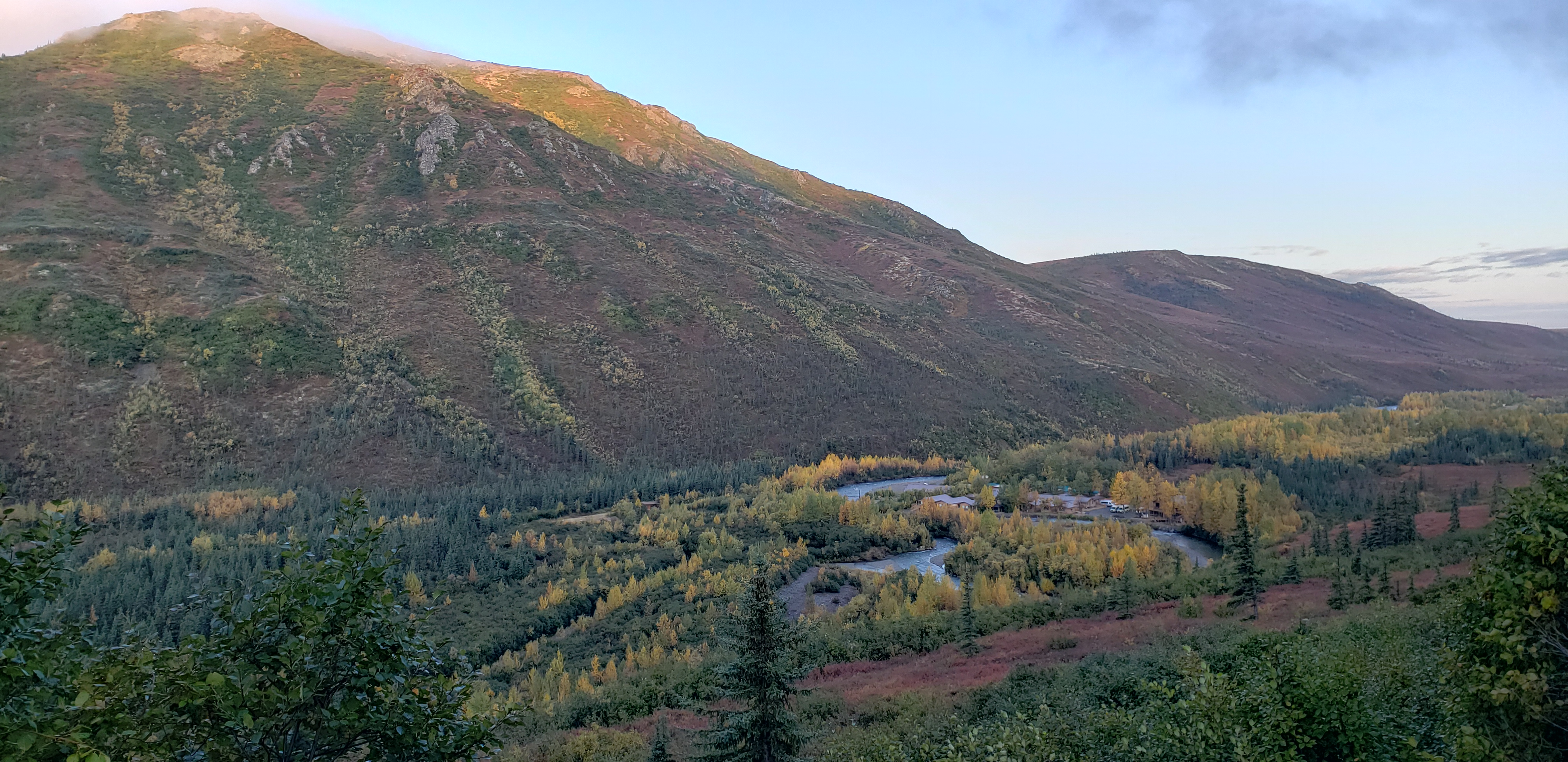 Kantishna, Alaska, with Denali Backcountry Lodge in the center and Kantishna Airport on the right